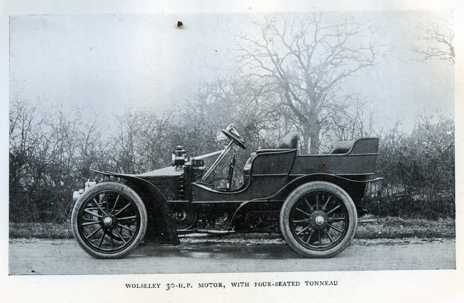 Wolseley 30HP 1903? with four seated Tonneau The Motor Book by R. J. Mecredy, 1904. These images are from the original second edition.